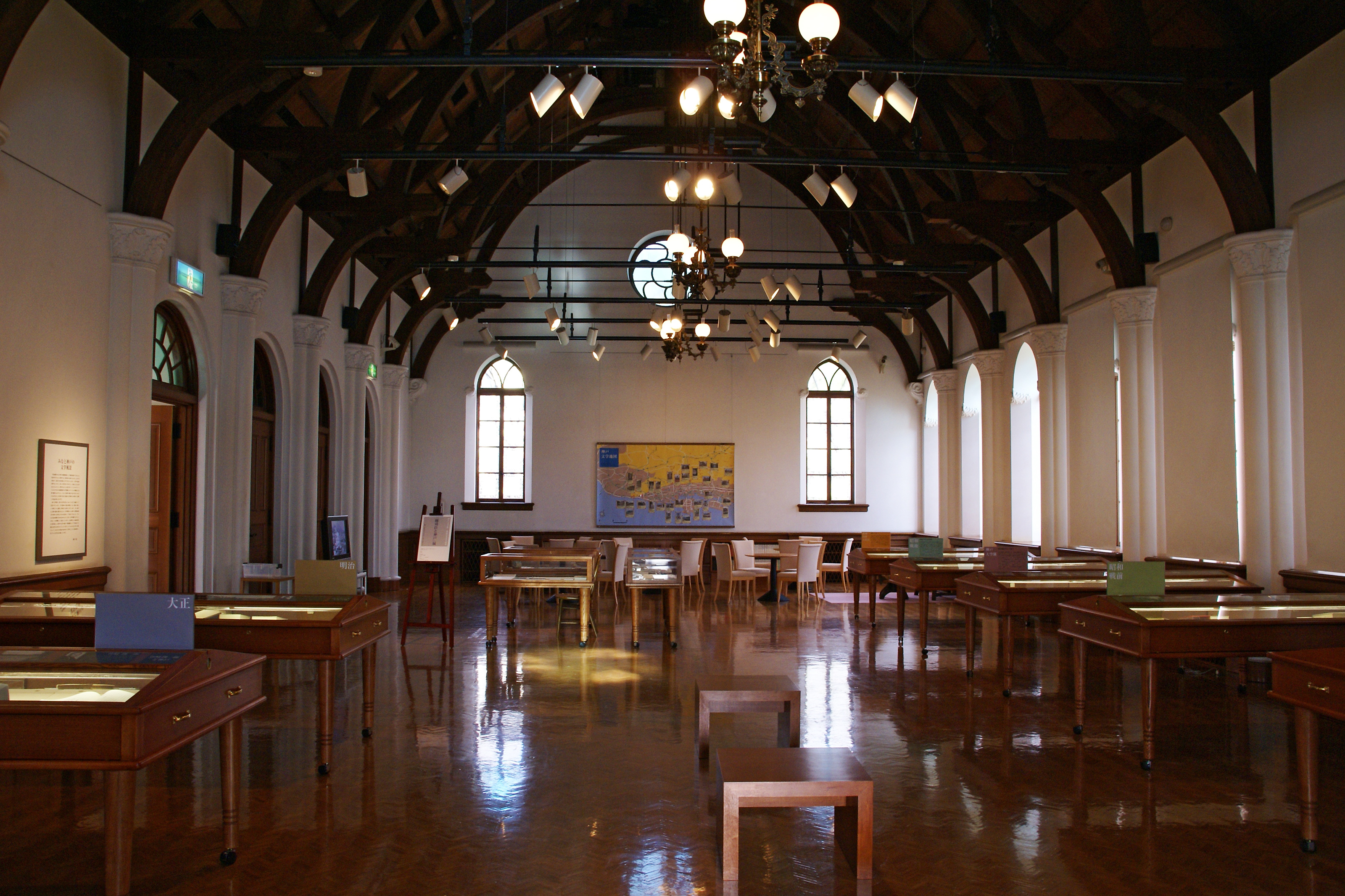 Kobe City Museum of Literature in Kobe, Hyogo prefecture, Japan